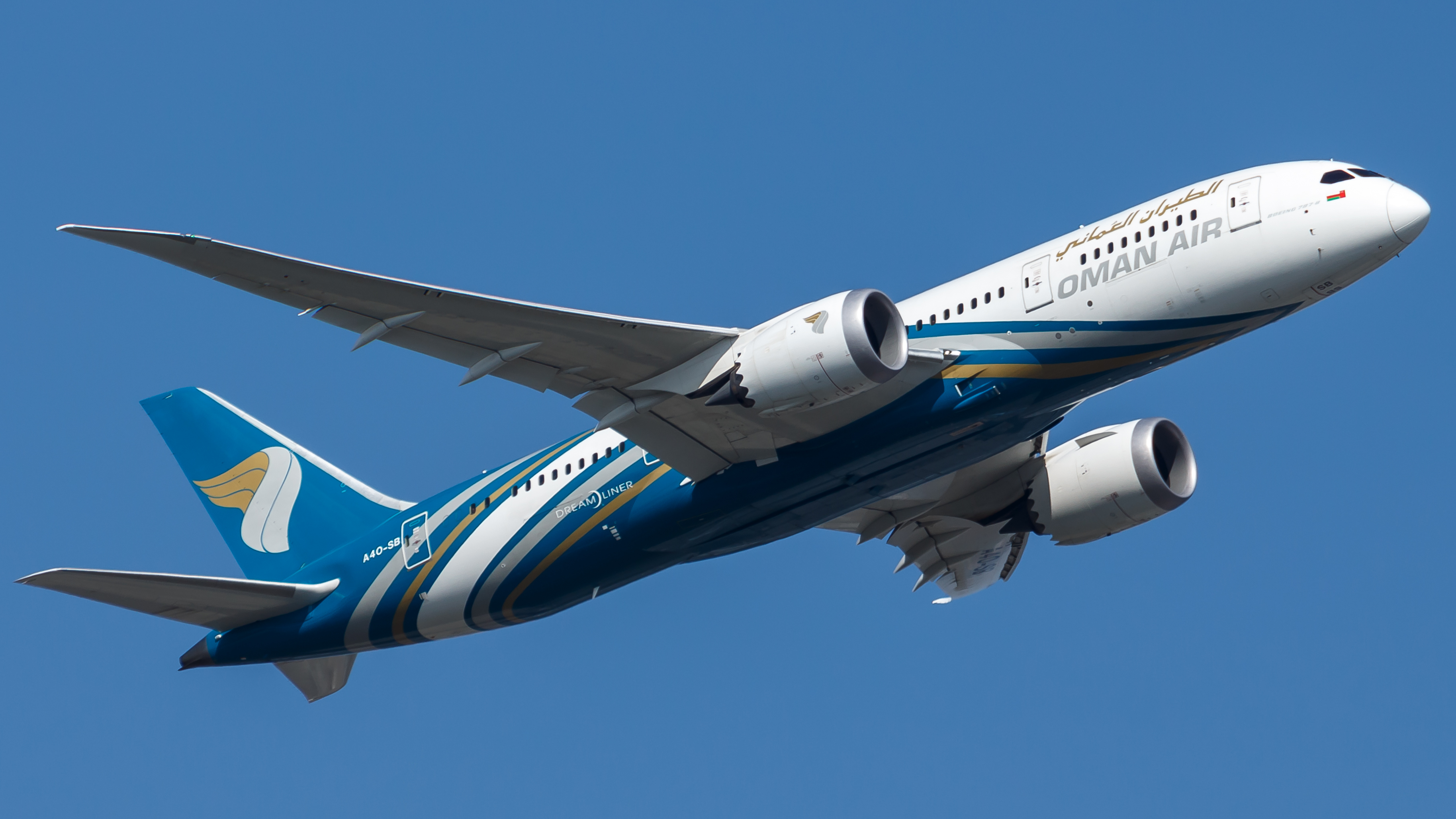 Oman Air Boeing 787-8 at Frankfurt Airport